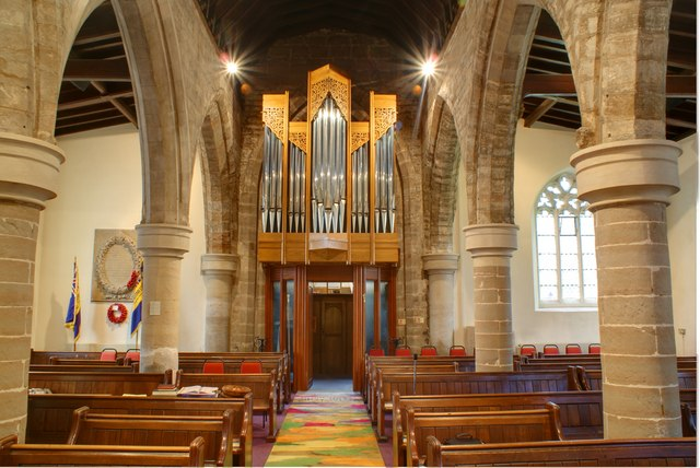 The new organ and millennium carpet in St. Helen's Church The columns are upright - blame my lens!